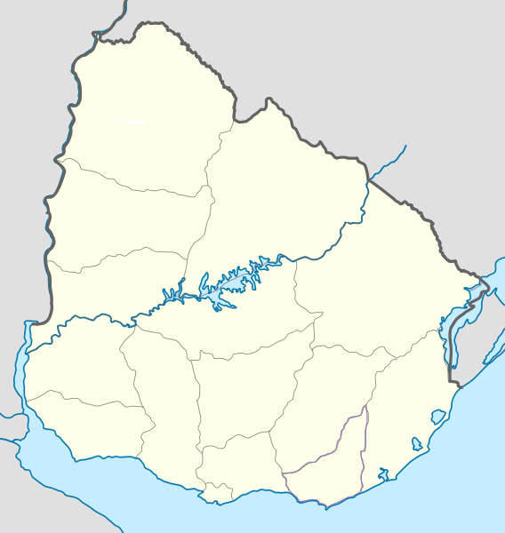 1880 map of the Oriental Republic of Uruguay. After the establishment of the new departments of Río Negro and Rocha, the country was subdivided into fifteen departments